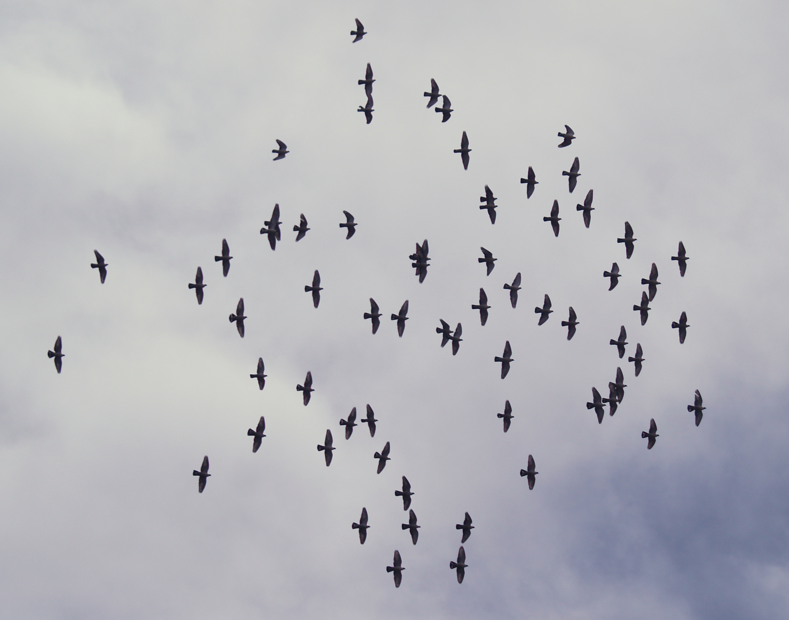 Snow Pigeon Columba leuconota flock at 4800m altitude above Khumjung, near Everest Base Camp